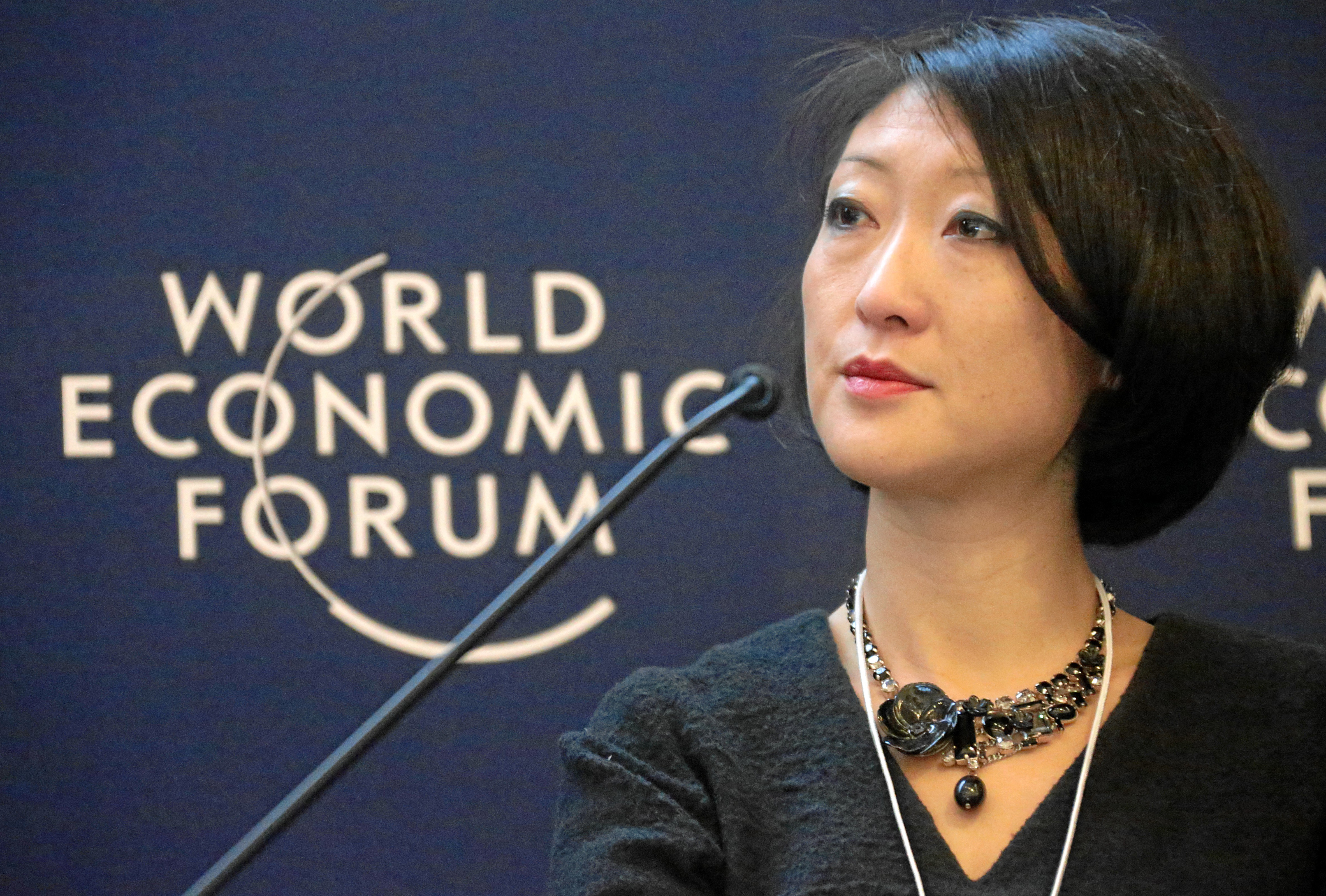 DAVOS/SWITZERLAND, 25JAN13 - Fleur Pellerin, Minister for SMEs, Innovation and Digital Economy of France lisens during the session 'The Secrets of Competitiveness' at the Annual Meeting 2013 of the World Economic Forum in Davos, Switzerland, January 25, 2013. . . Copyright by World Economic Forum. . Remy Steinegger